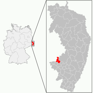 location of Lawalde in the district (Landkreis) of Görlitz in Germany